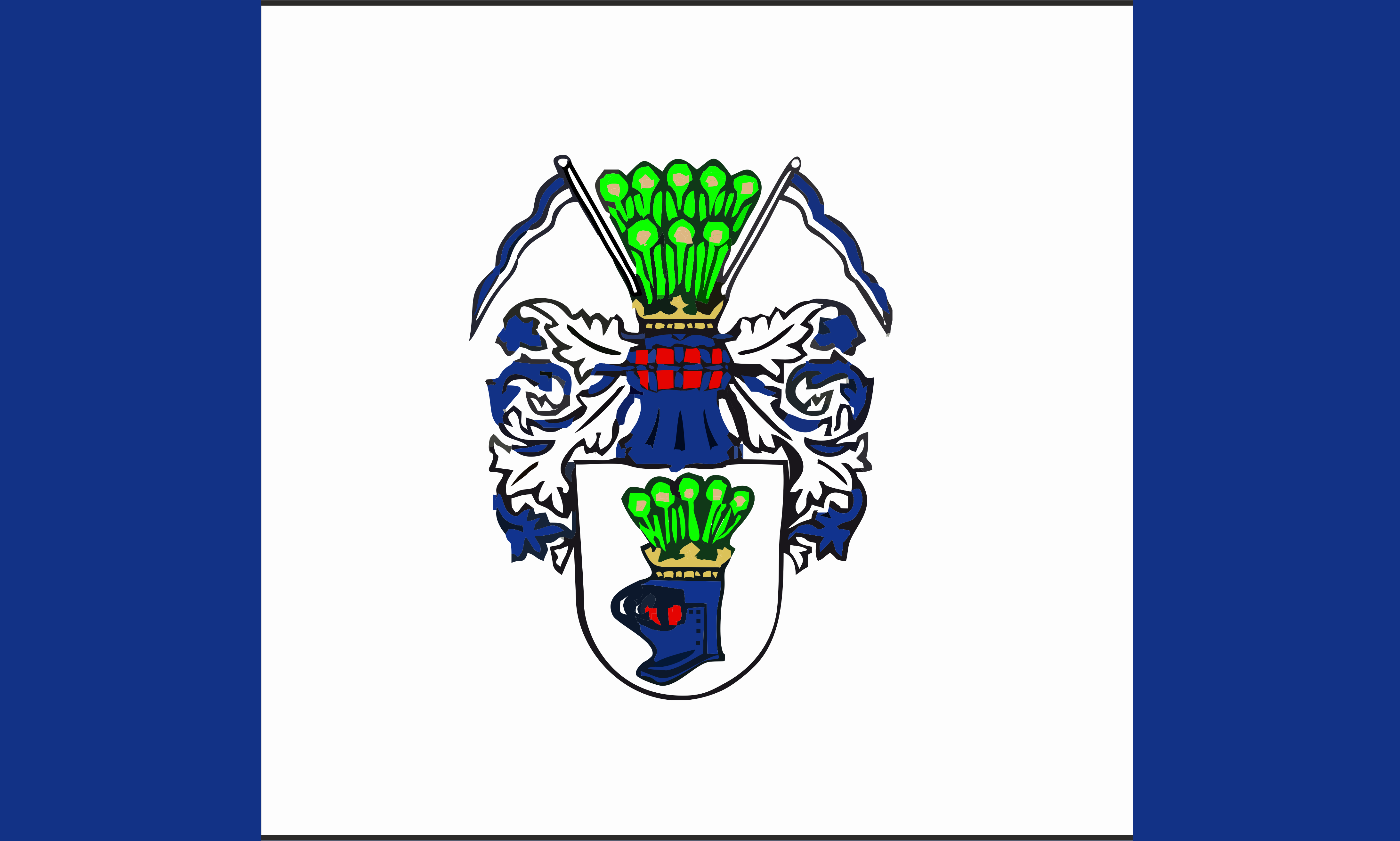 Flag of Usedom City